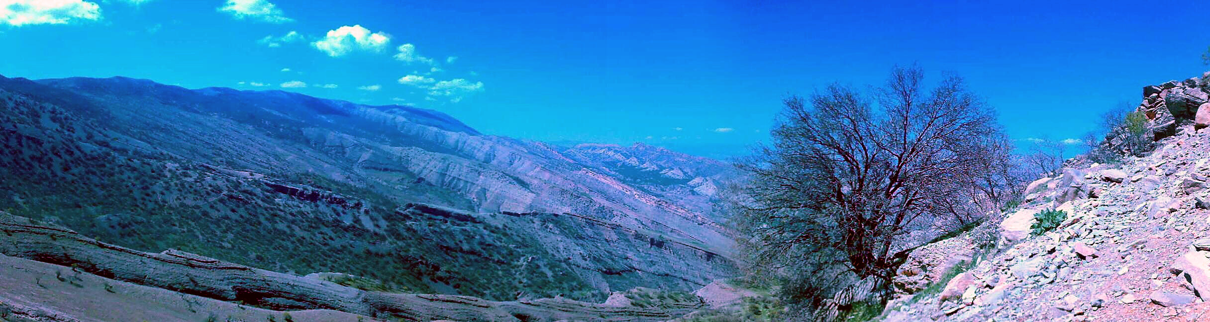 A panoramic view of Kabir Kuh, Darreh Shahr, Iran.